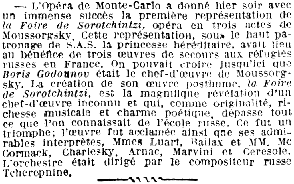 Review of Mussorgskys La Foire de Sorotchintzi - Le Journal 1923-03-18